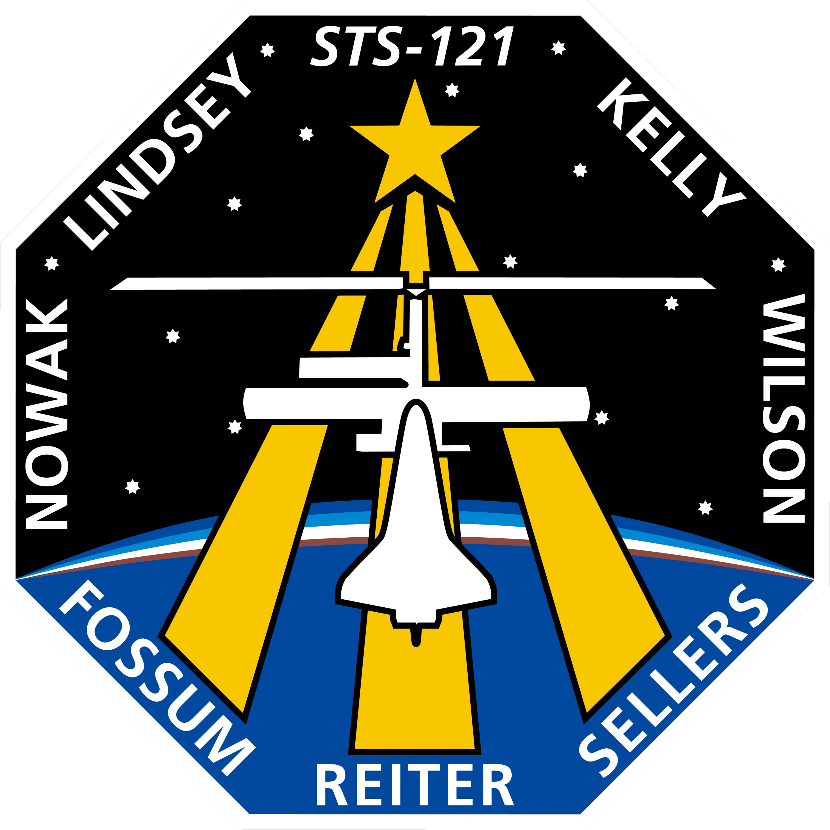 The STS-121 patch depicts the Space Shuttle docked with the International Space Station (ISS) in the foreground, overlaying the astronaut symbol with three gold columns and a gold star. The ISS is shown in the configuration that it will be in during the STS-121 mission. The background shows the nighttime Earth with a dawn breaking over the horizon. STS-121, ISS mission ULF1.1, is the final Shuttle Return to Flight test mission. This utilization and logistics flight will bring a multipurpose logistics module (MPLM) to the ISS with several thousand pounds of new supplies and experiments. In addition, some new orbital replacement units (ORUs) will be delivered and stowed externally on ISS on a special pallet. These ORUs are spares for critical machinery located on the outside of the ISS. During this mission the crew will also carry out testing of Shuttle inspection and repair hardware, as well as evaluate operational techniques and concepts for conducting on-orbit inspection and repair. The NASA insignia design for Shuttle space flights is reserved for use by the astronauts and other official use as the NASA Administrator may authorize. Public availability has been approved only in the form of illustrations by the various news media. When and if there is any change in this policy, which is not anticipated, such will be publicly announced.